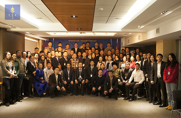 Зон Олны нам Их хурал 12.06